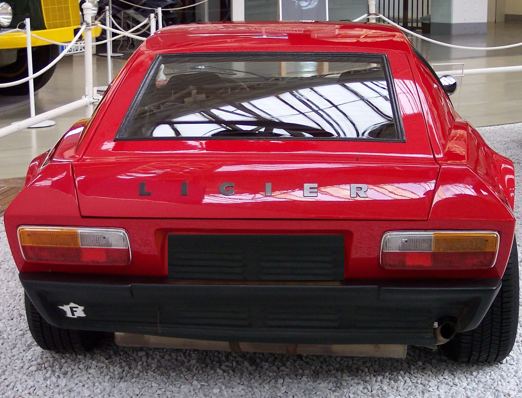 Description: Ligier JS2 h red Source: own image